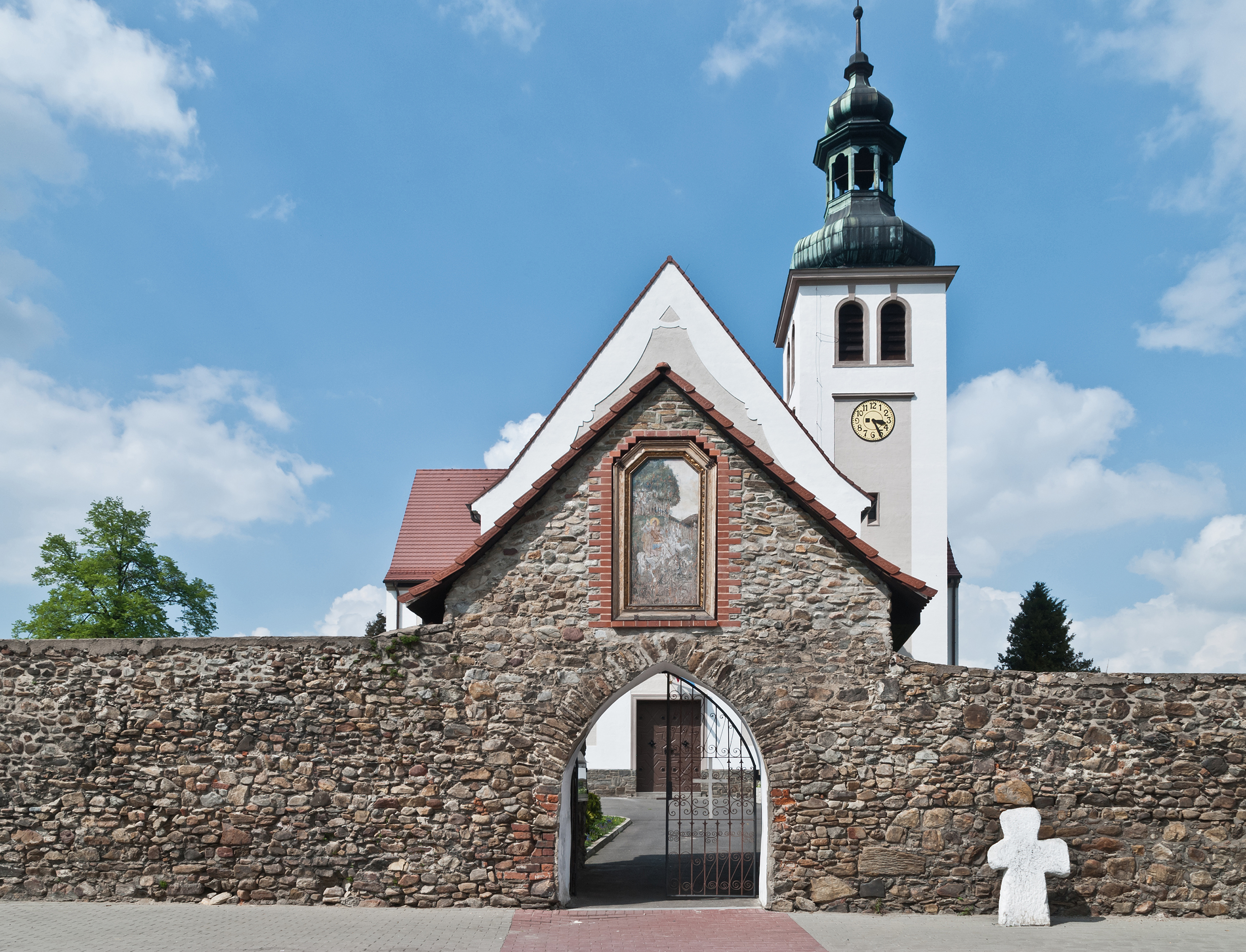 Saint George church in Kamienica, wall with entrance